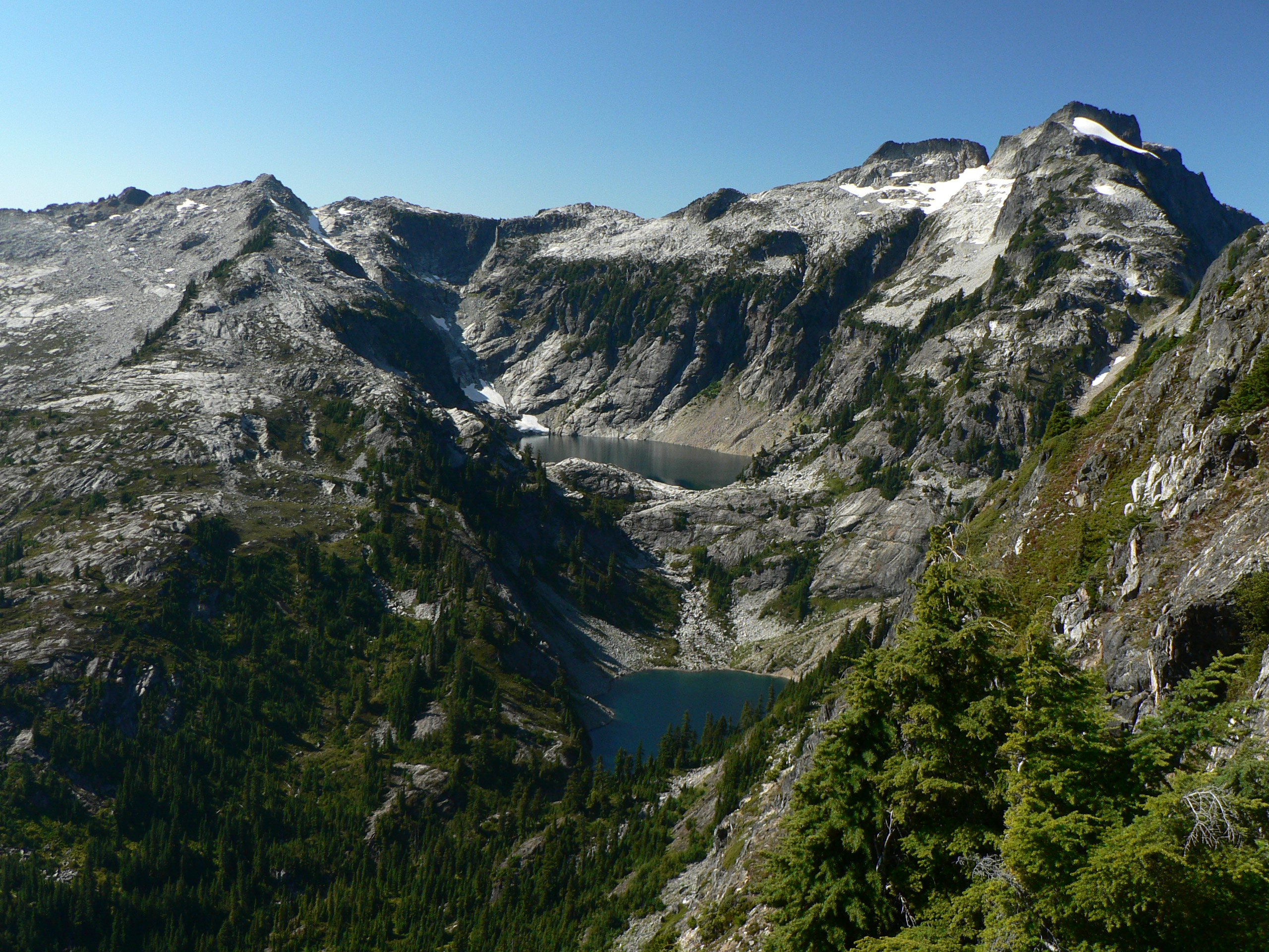 Thornton Lakes Upper Thornton Lake, 5040 feet, 1536 m, Middle Thornton Lake, 4700 feet, 1433 m; Mountain Hemlock (lower right foreground)